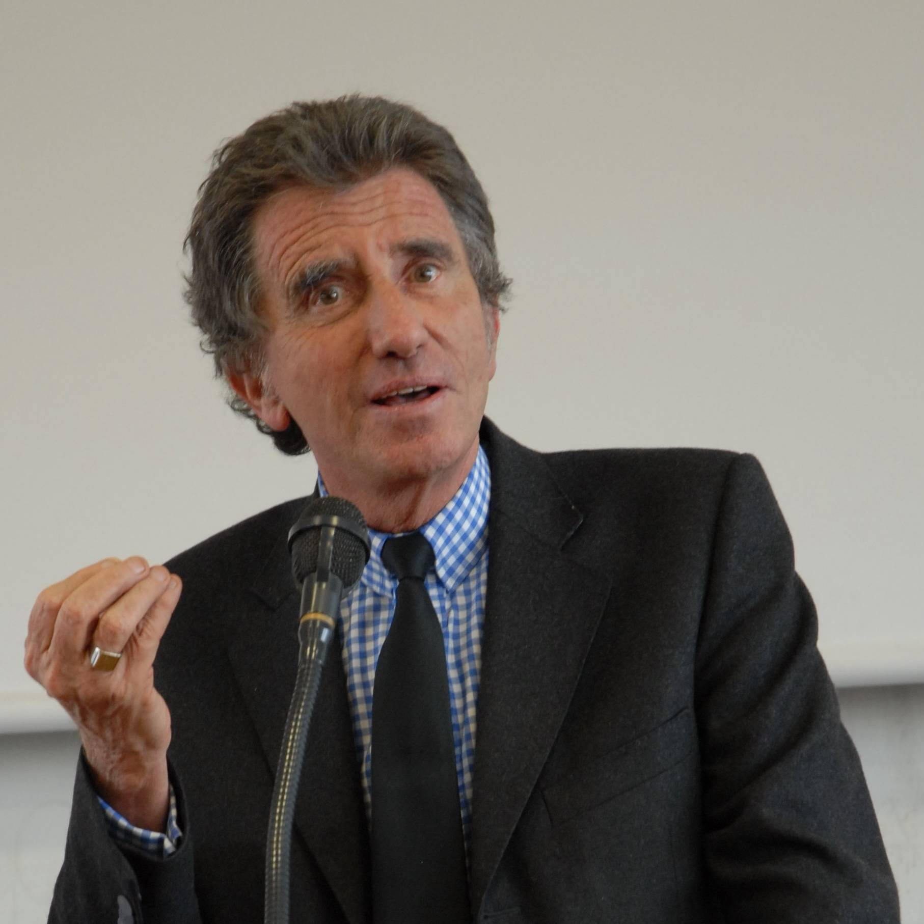 Jack Lang, French socialist politician, MP and former Minister giving a talk at IEP Toulouse supporting the candidacy of Ségolène Royal for the French presidential election.